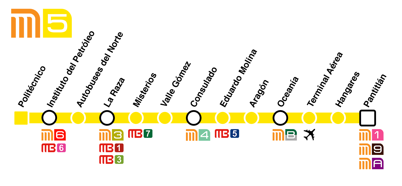 Mexico City Metro Line 5 plan, 2018